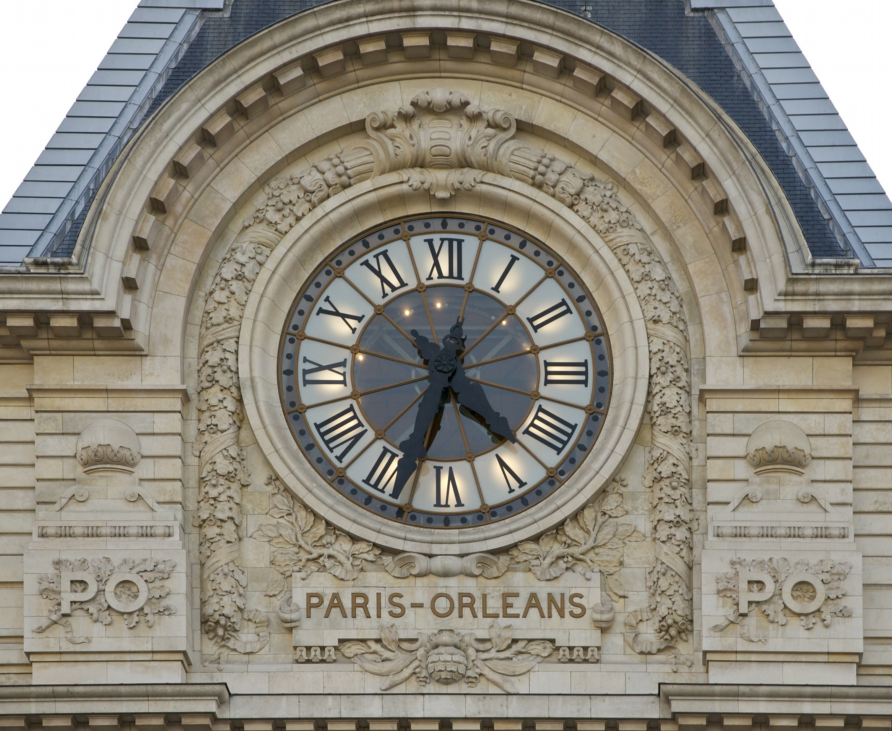 One of the two clocks of the former Orsay station, now "Musée d'Orsay" (art of the 19th century) in Paris. "Paris-Orléans" (P-O) was the name of the original railways company.